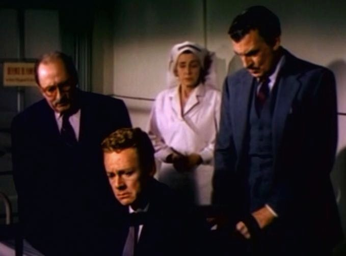 (Left to right) Jean Del Val, Van Johnson, and Walter Pidgeon in The Last Time I Saw Paris (1954) - cropped screenshot